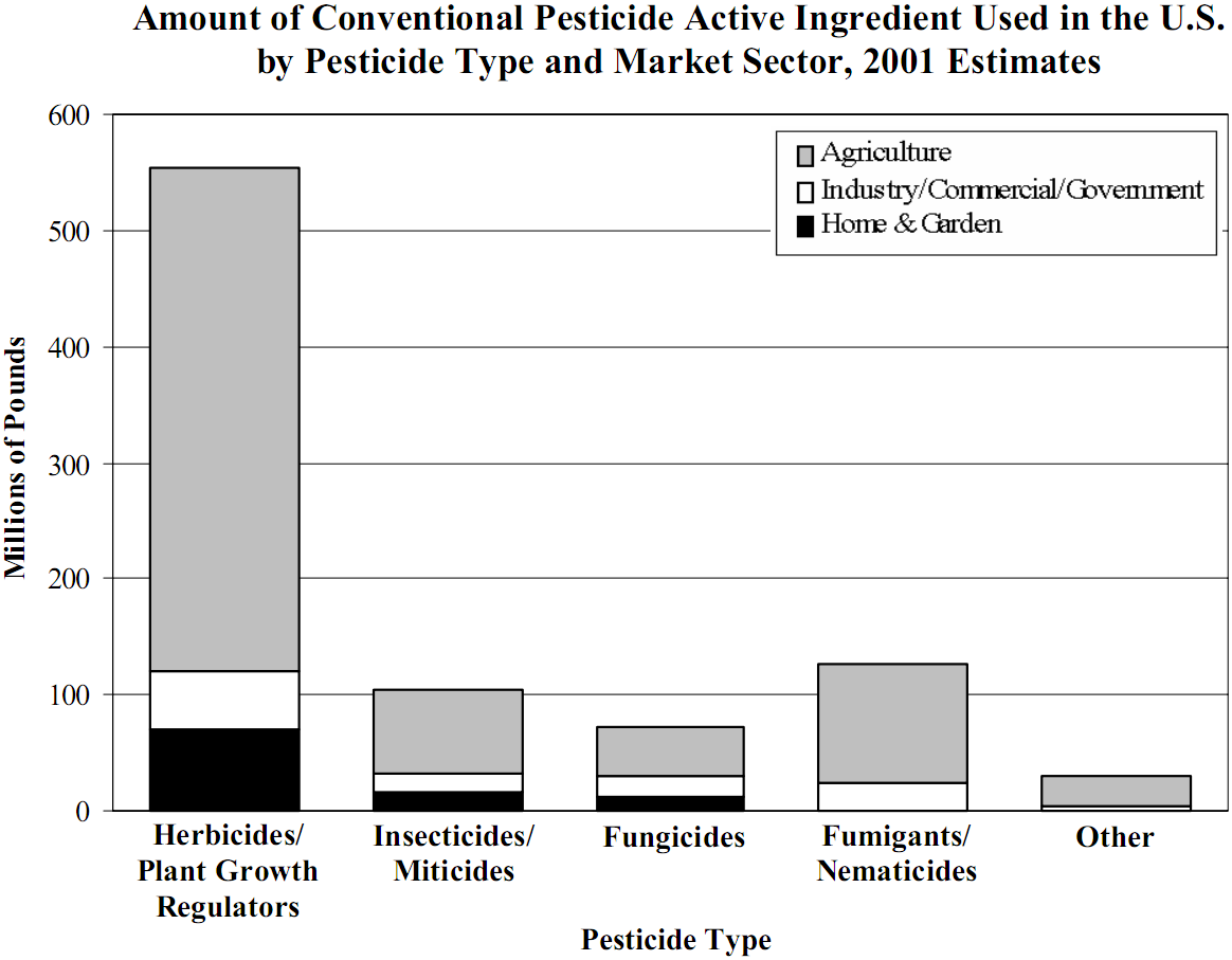 Graph of U.S. pesticide usage by type and industry, estimated for 2001.